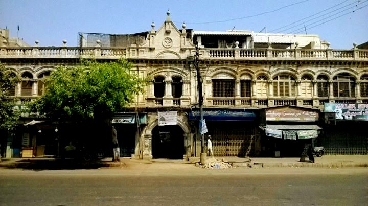 A view of the Faiz e Hussaini Building. This is a photo of a monument in Pakistan identified as the SD-P-82